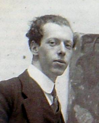 Willy Eisenschitz (1889-1974), French Painter from Austria. Photo taken in 1910.